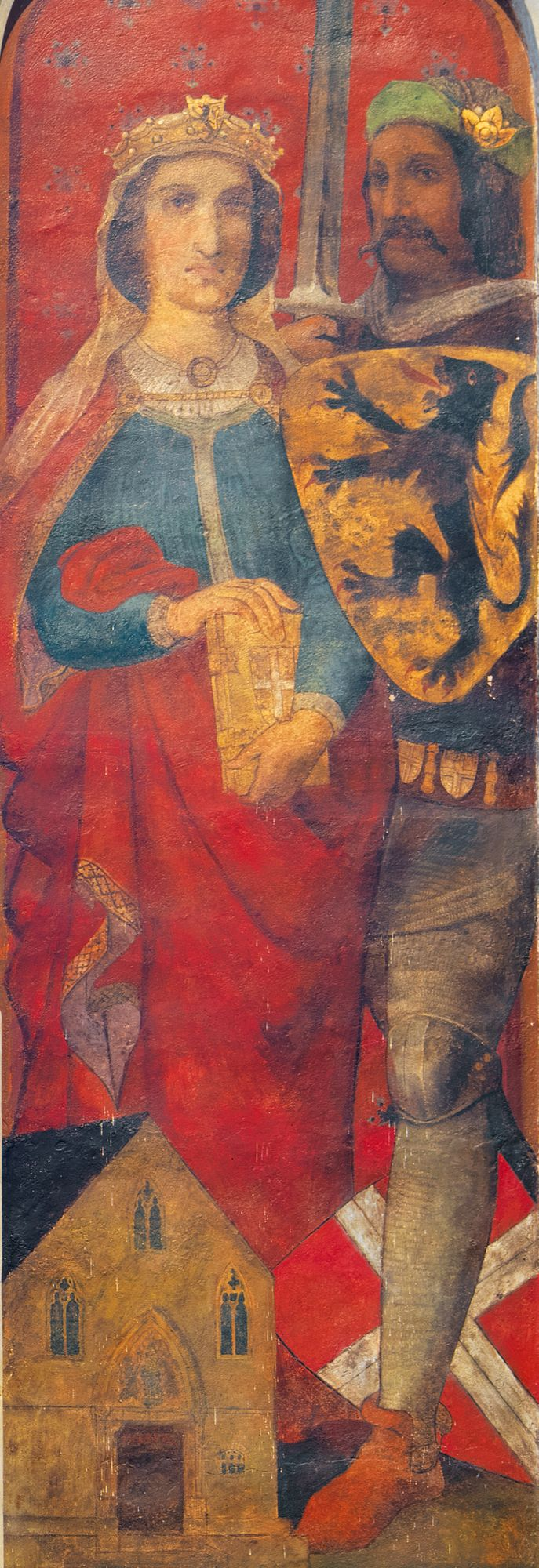 Joanna of Constantinople and her husband Thomas of Savoy